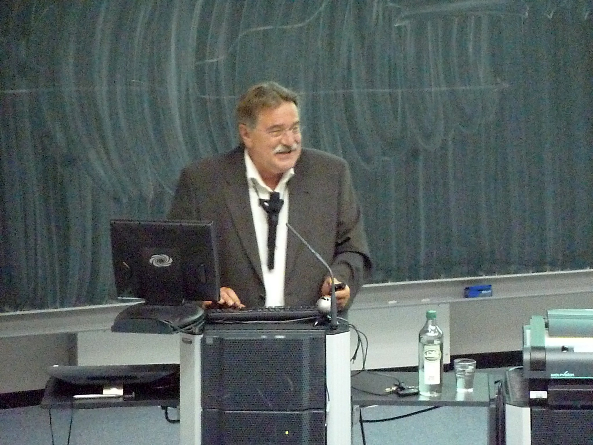 Helge Karch